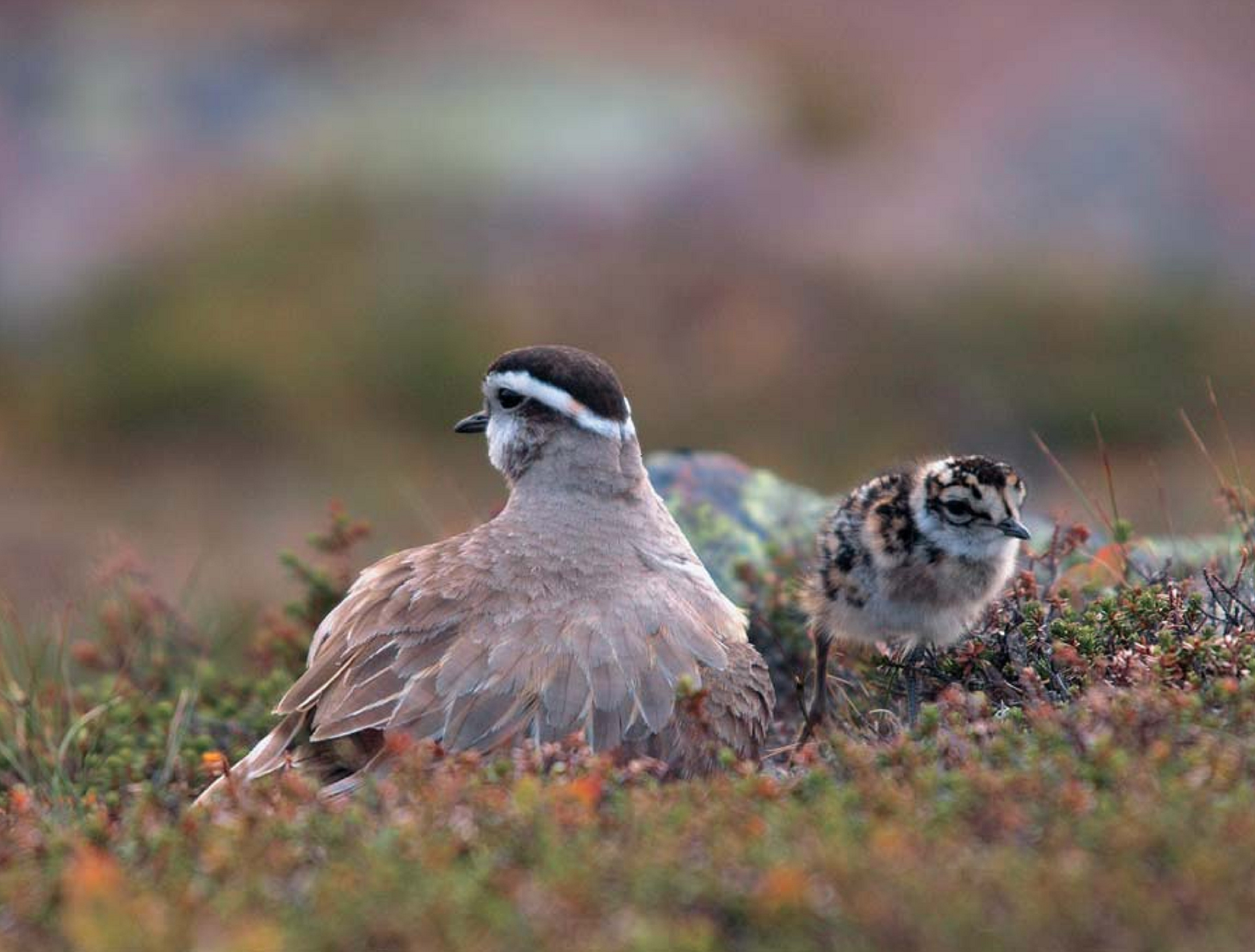 Dotterel Charadrius morinellus, female with chicks out of the nest. First known documentation of female attending chicks out of the nest. Varanger Peninsula, arctic Norway.